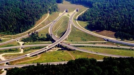 Malence highway intersection of A1 and A2 south of Ljubljana, Slovenia